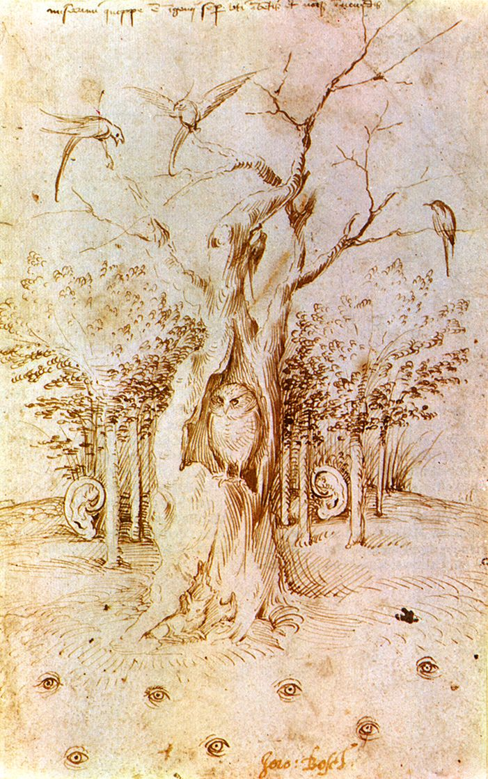 Front of a two-sided drawing. For the reverse, see File:The Woods that Hears and Sees Bosch (reverse).jpg.